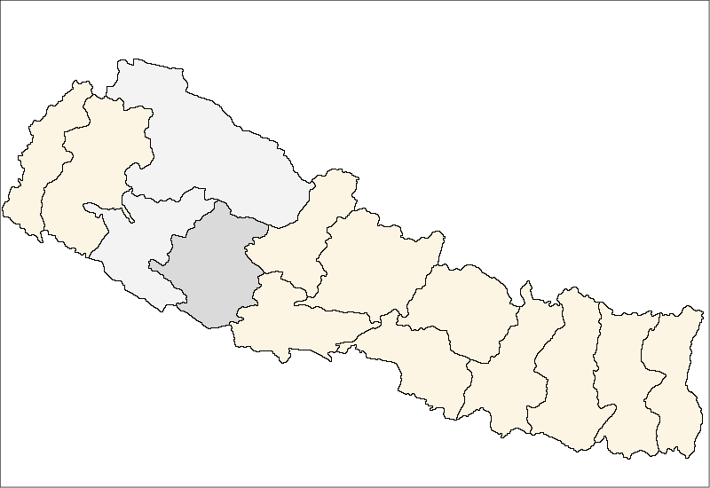 FrenchCarte de localisation de lazone de Rapti(wp-FR),au Népal (wp-FR).EnglishLocation map ofRapti Zone(wp-EN),in Nepal (wp-EN).